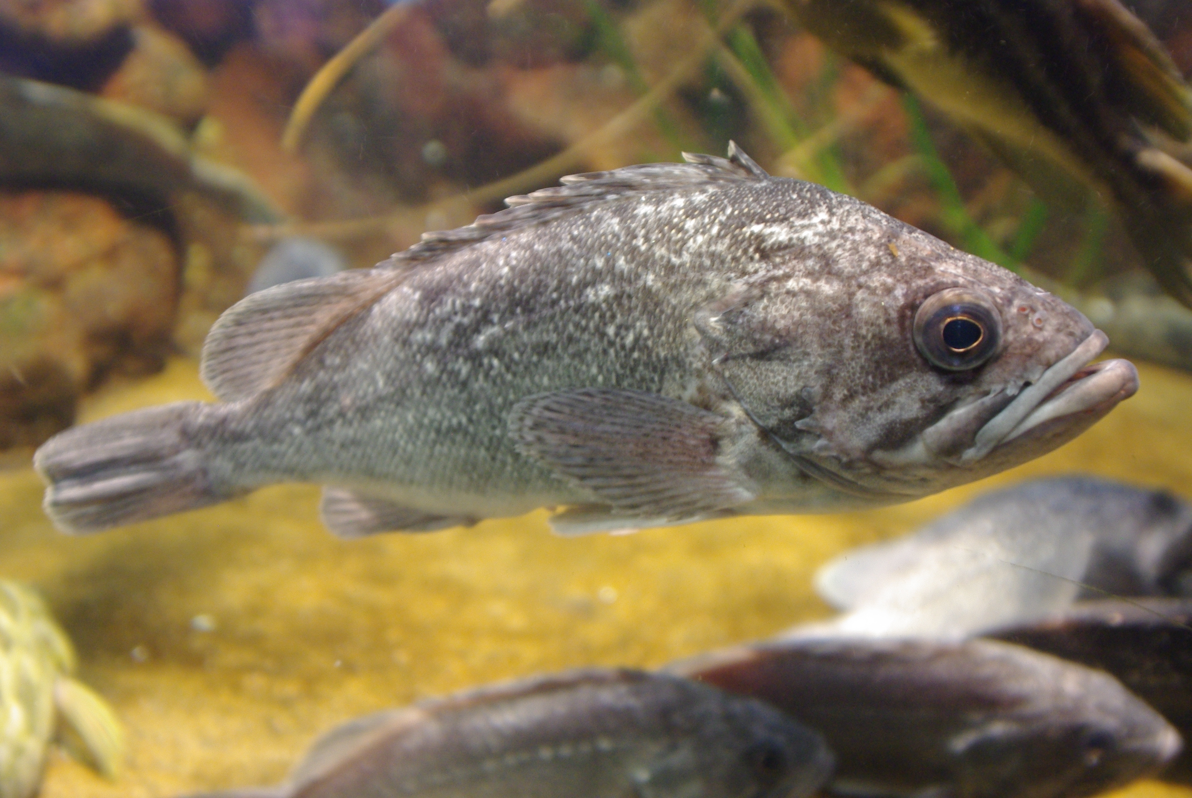 Sebastes schlegelii Hilgendorf, 1880 taken at Muroran Aquarium, Hokkaido, Japan.